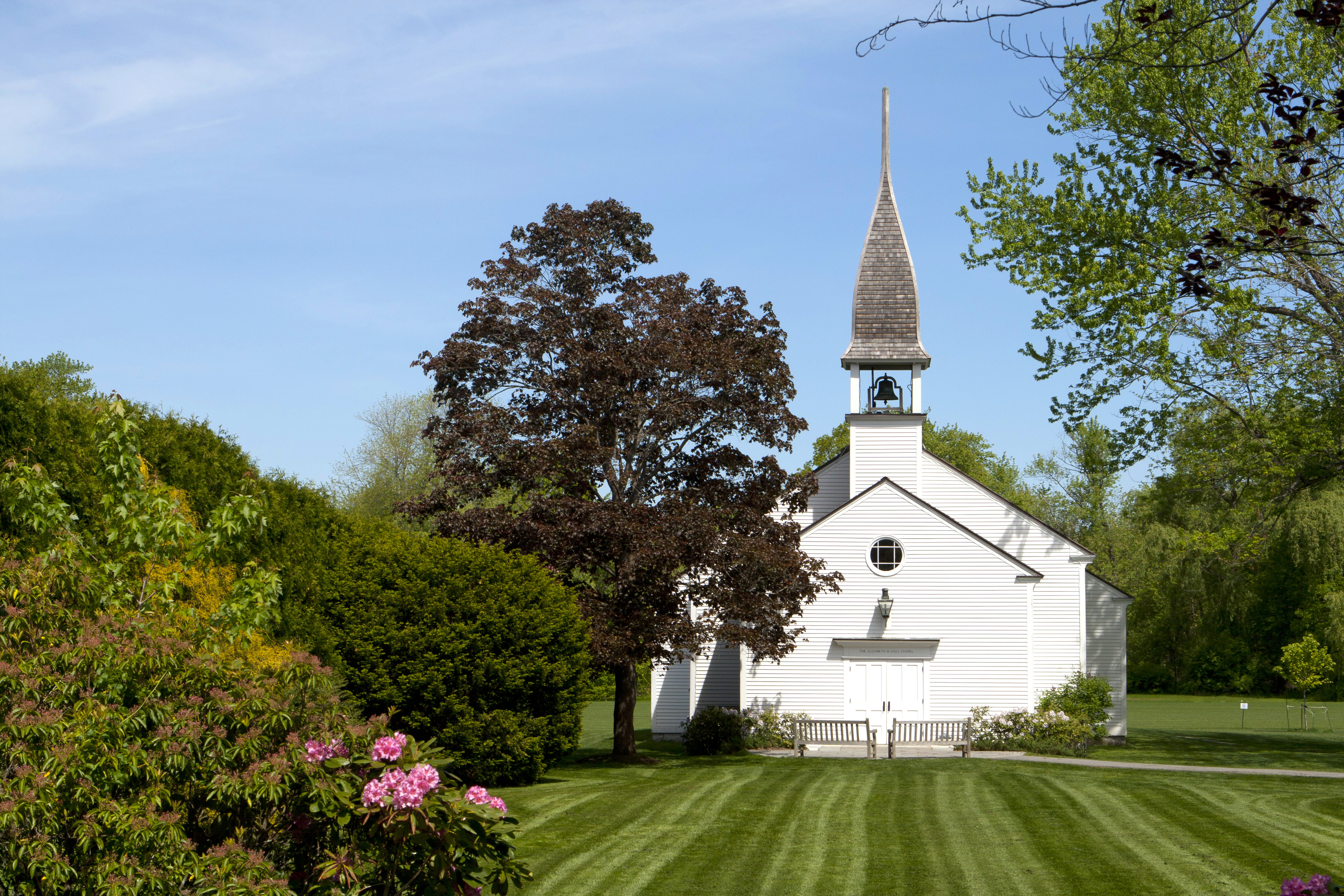 Elizabeth B. Hall Chapel is a frequent gathering place for the Concord Academy community.